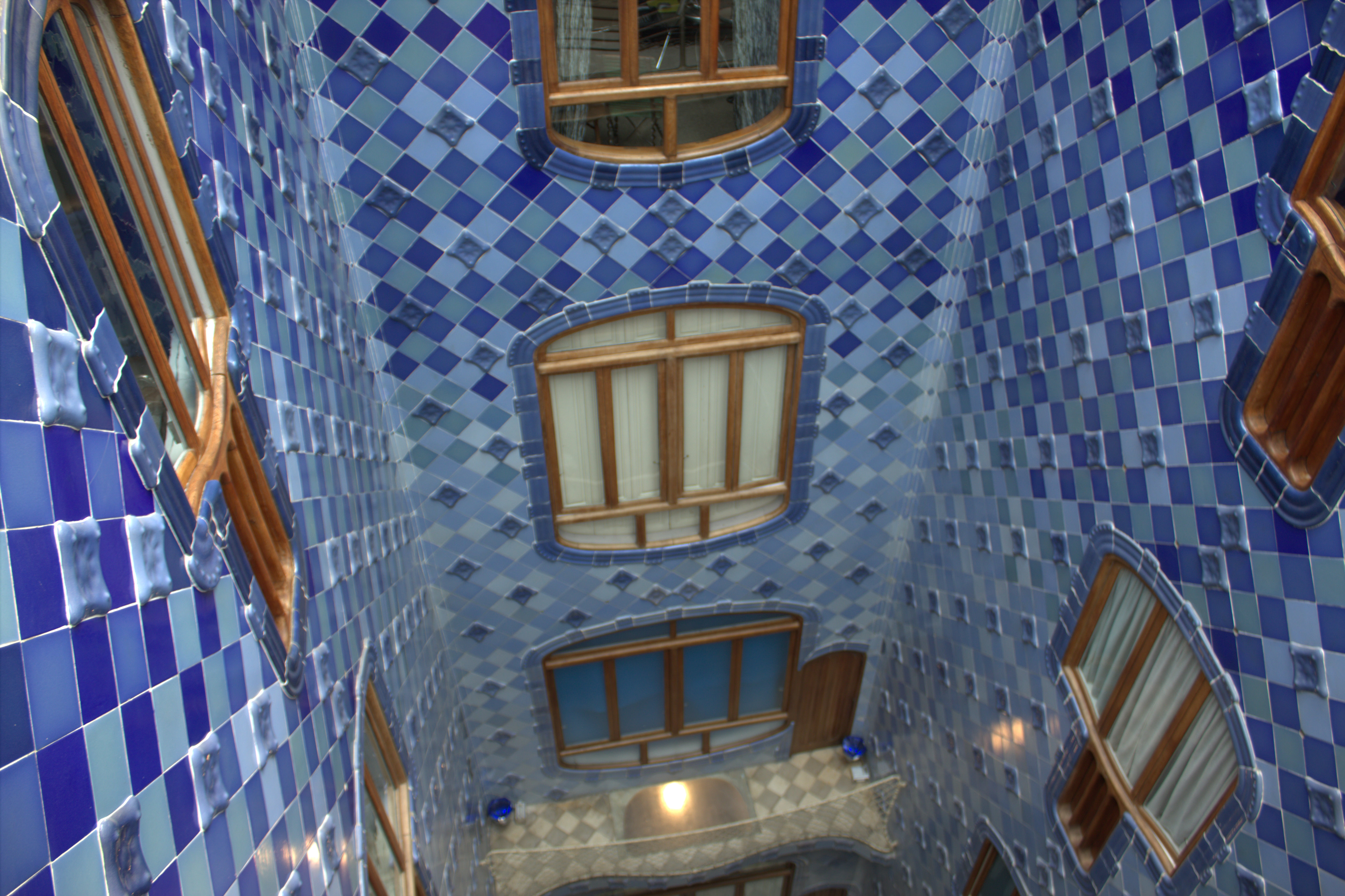 Casa Batlló central light well. Darker tiles are at the top, and lighter at the bottom, so from the first floor you may think the color is uniform.